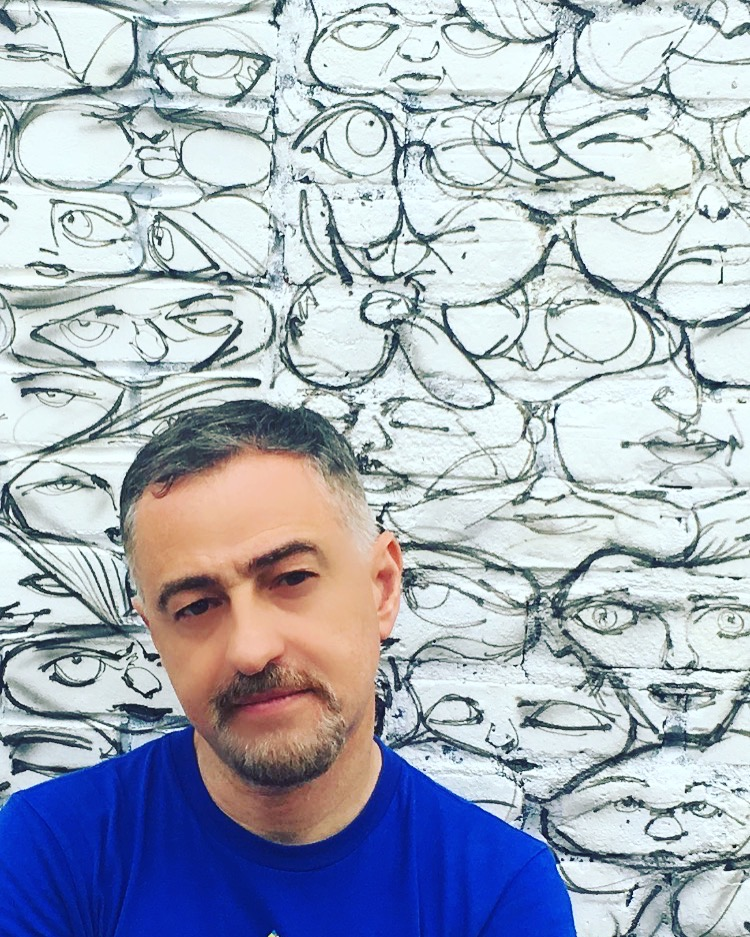 A portrait of Italian writer Matteo B. Bianchi in 2017.